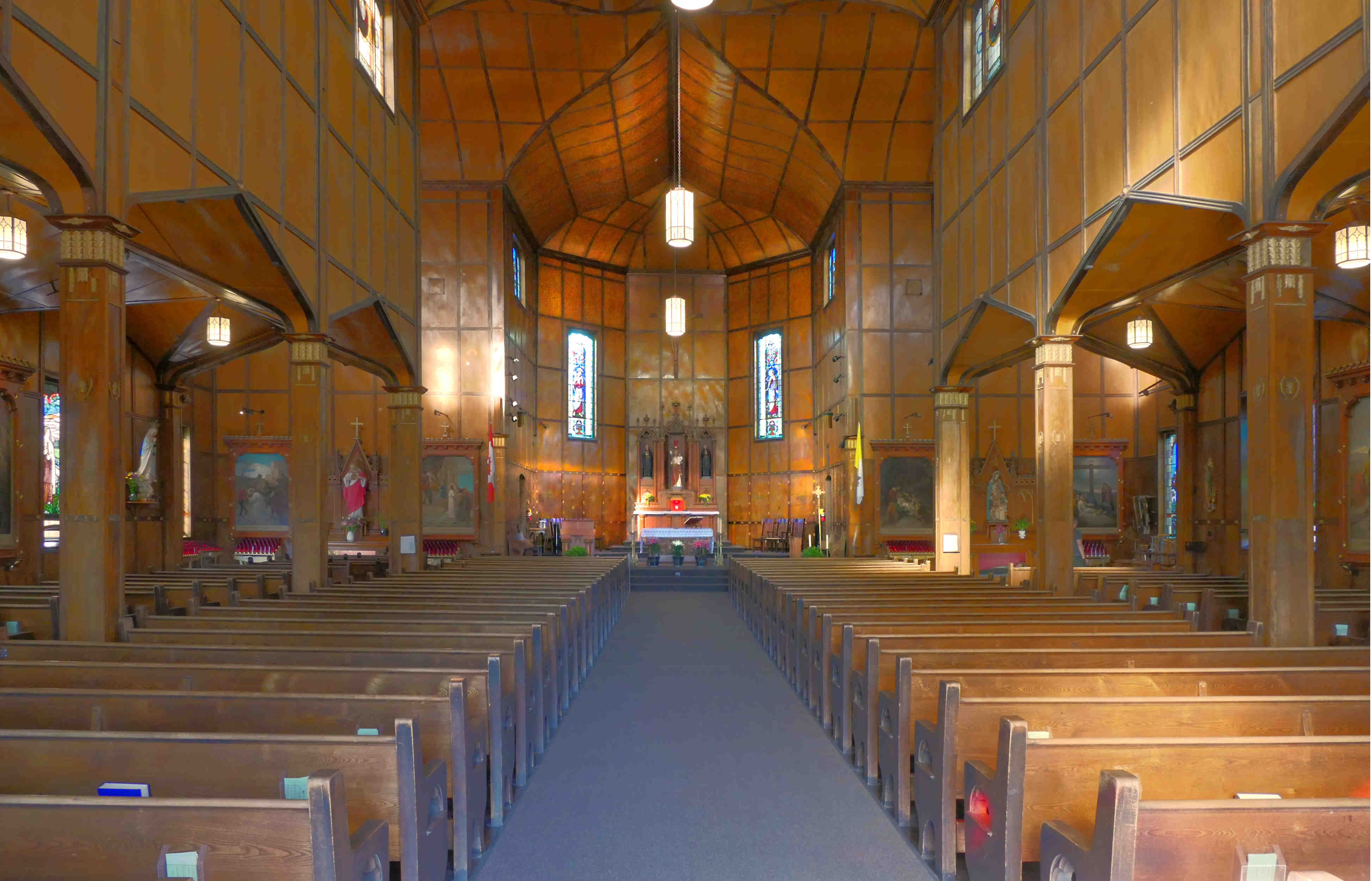 Interior of Martyrs' Shrine (Midland)